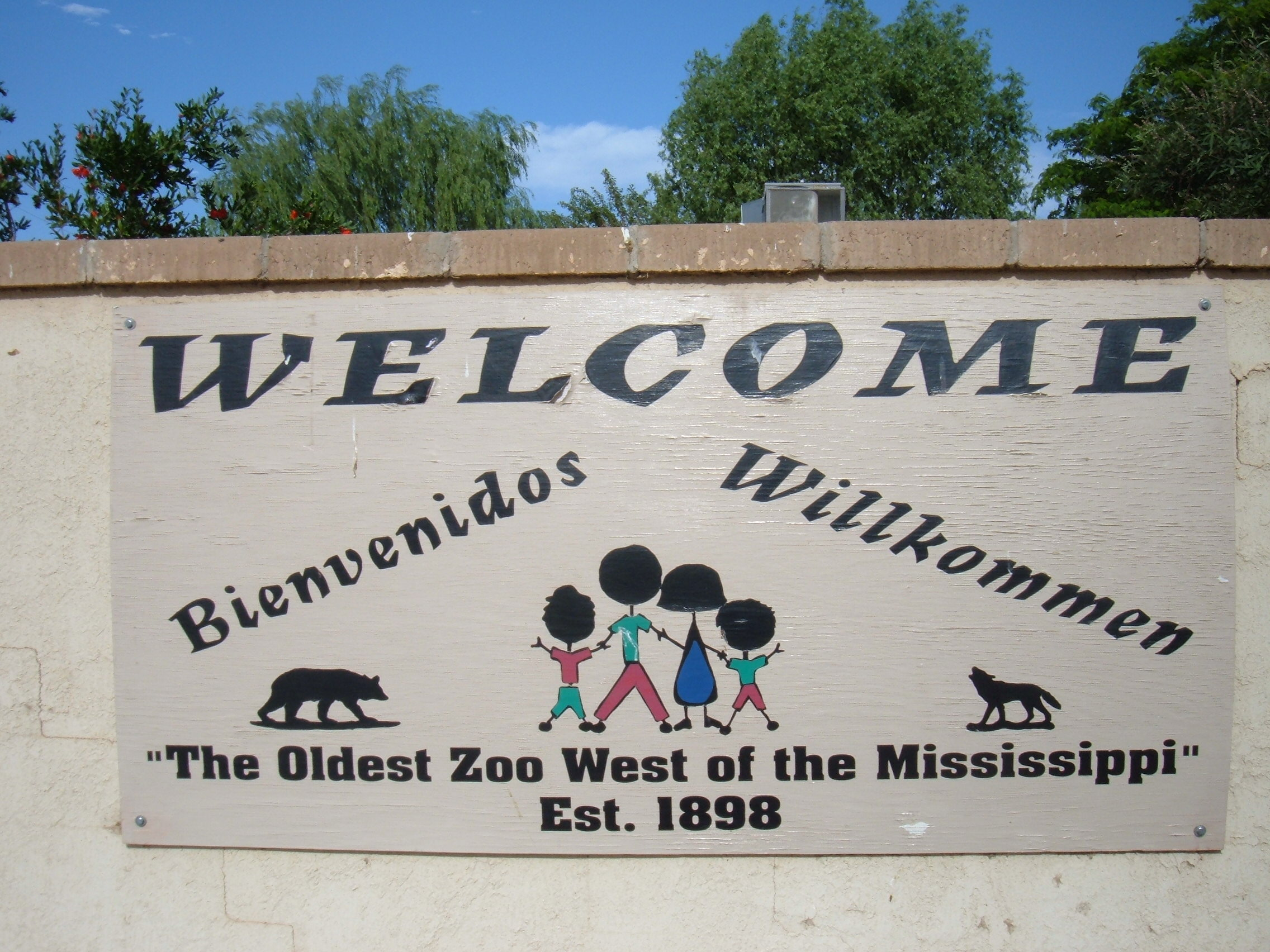 Welcome sign at entrance of Alameda Park Zoo in Alamogordo, New Mexico